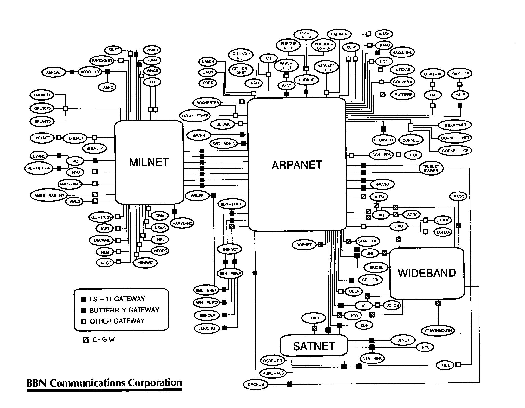 Contemporary map of the entire Internet, circa late-1985/early-1986. The little squares are routers, the small ovals are sites/networks (some sites included more than one physical network), and the large shapes are long-haul backbones. No individual hosts are shown. See the image's talk page for email from Bob with more details about its creation.